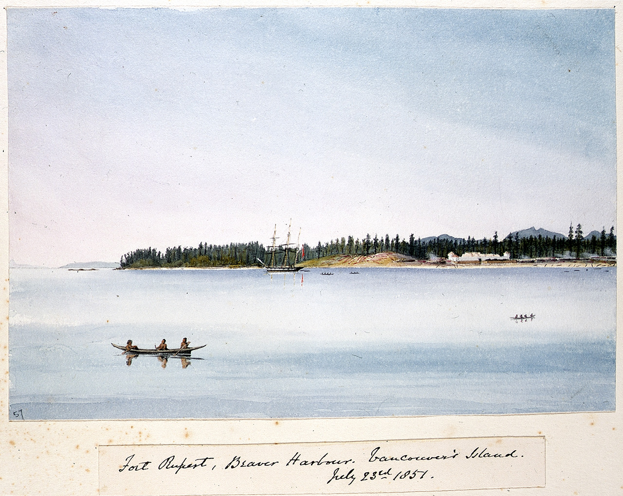 'Fort Rupert, Beaver Harbour, Vancouver's Island, July 23rd 1851' [Canada].